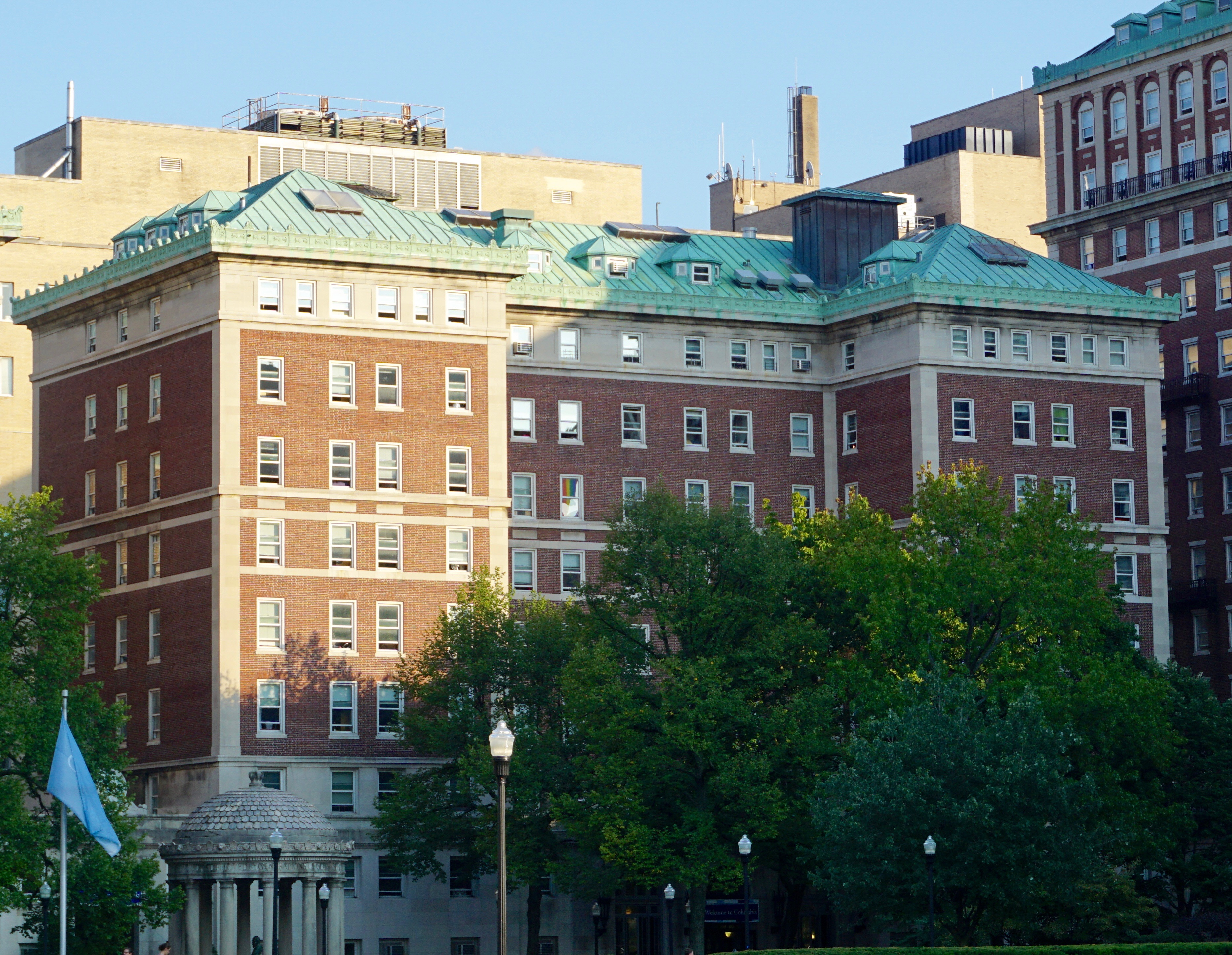 My own photograph; Wallach Hall, a dorm, at Columbia University in the City of New York.